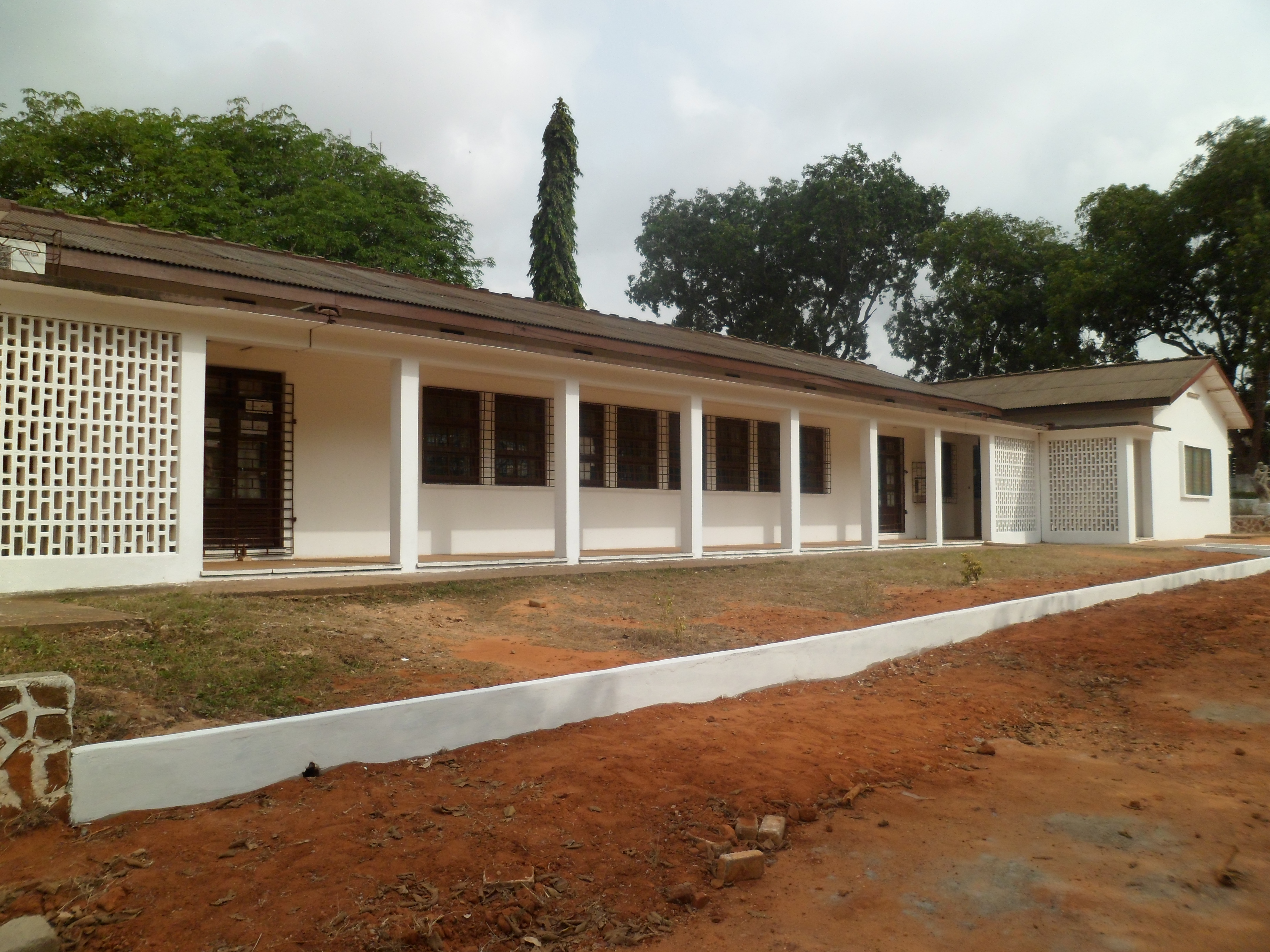 This is a photograph of the Aglionby library of Accra Academy